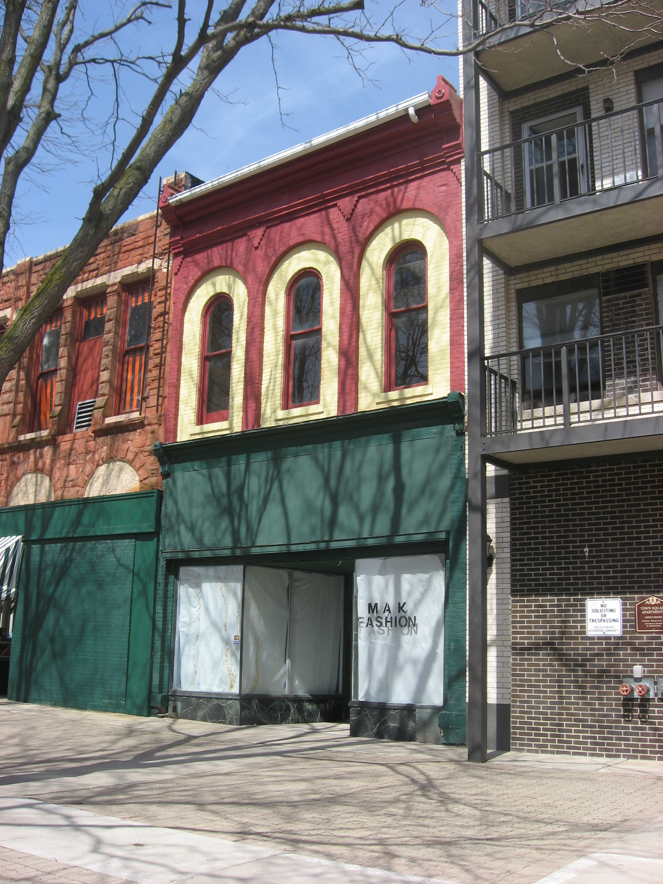 Front and side of the Neal Clothing Building, located at 74 Public Square in downtown Lima, Ohio, United States. Built in 1865, it is listed on the National Register of Historic Places.